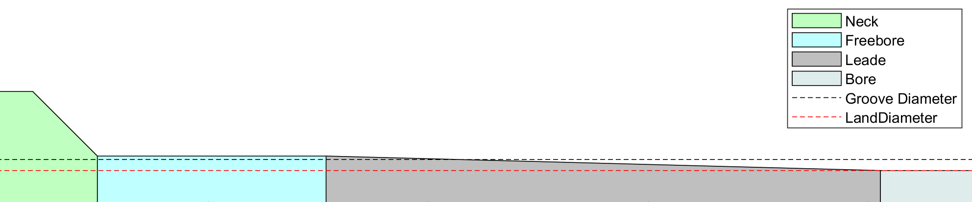 Closeup of chamber illustration showing the freebore and its relationship to rifling land and groove diameter.